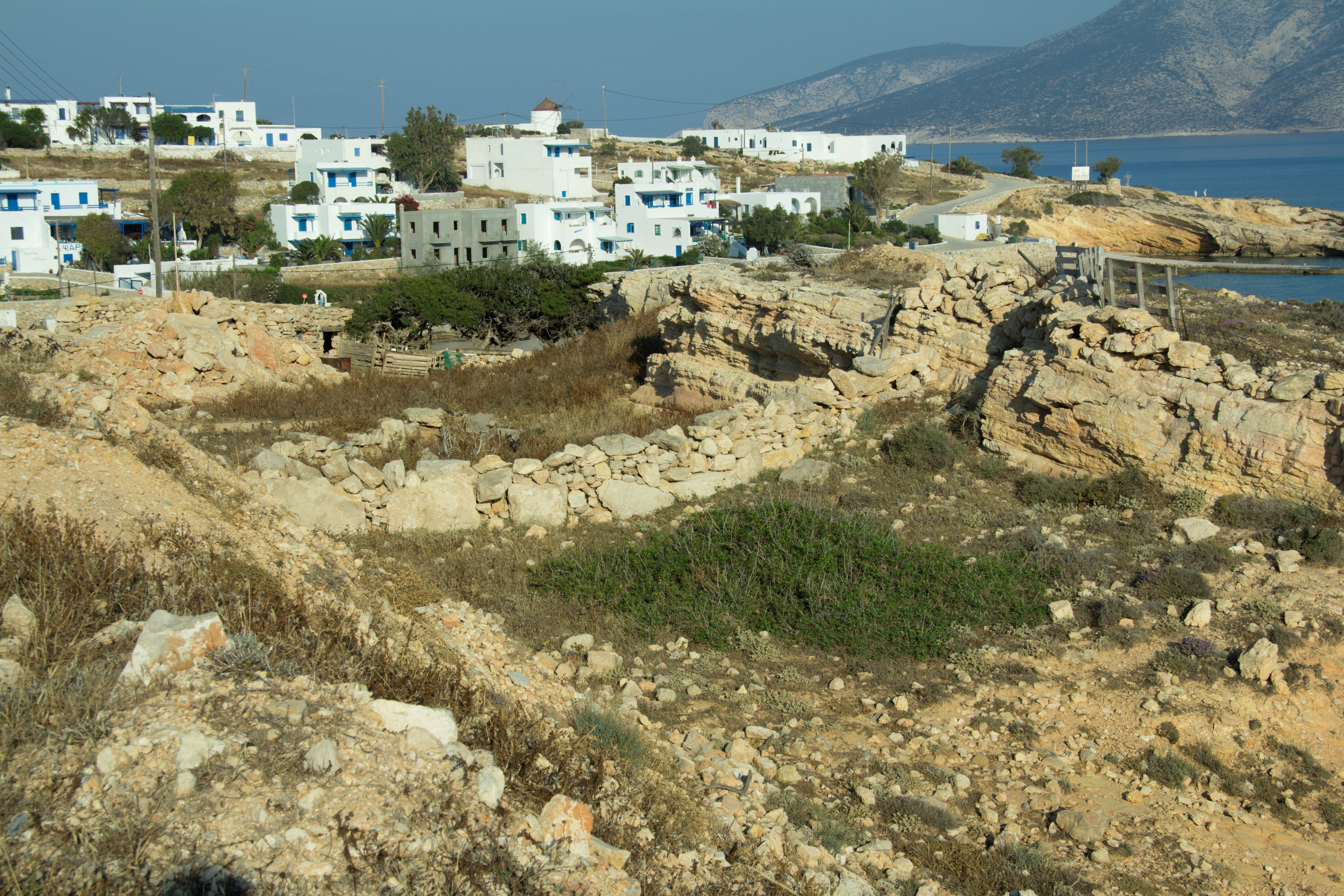 Remains of the excavations near Kato Miliat on island Pano Koufonisi. Looking towards the "town" Ag. Georgios.